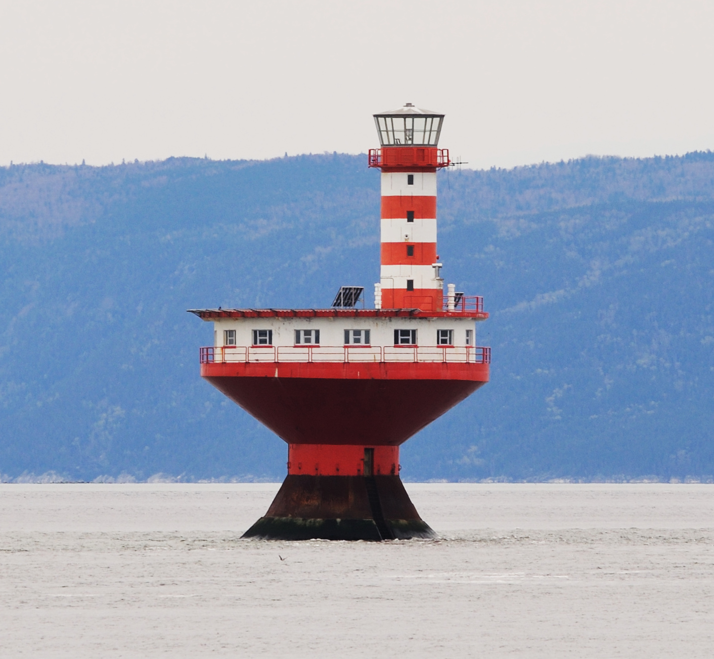 Prince Shoal Light